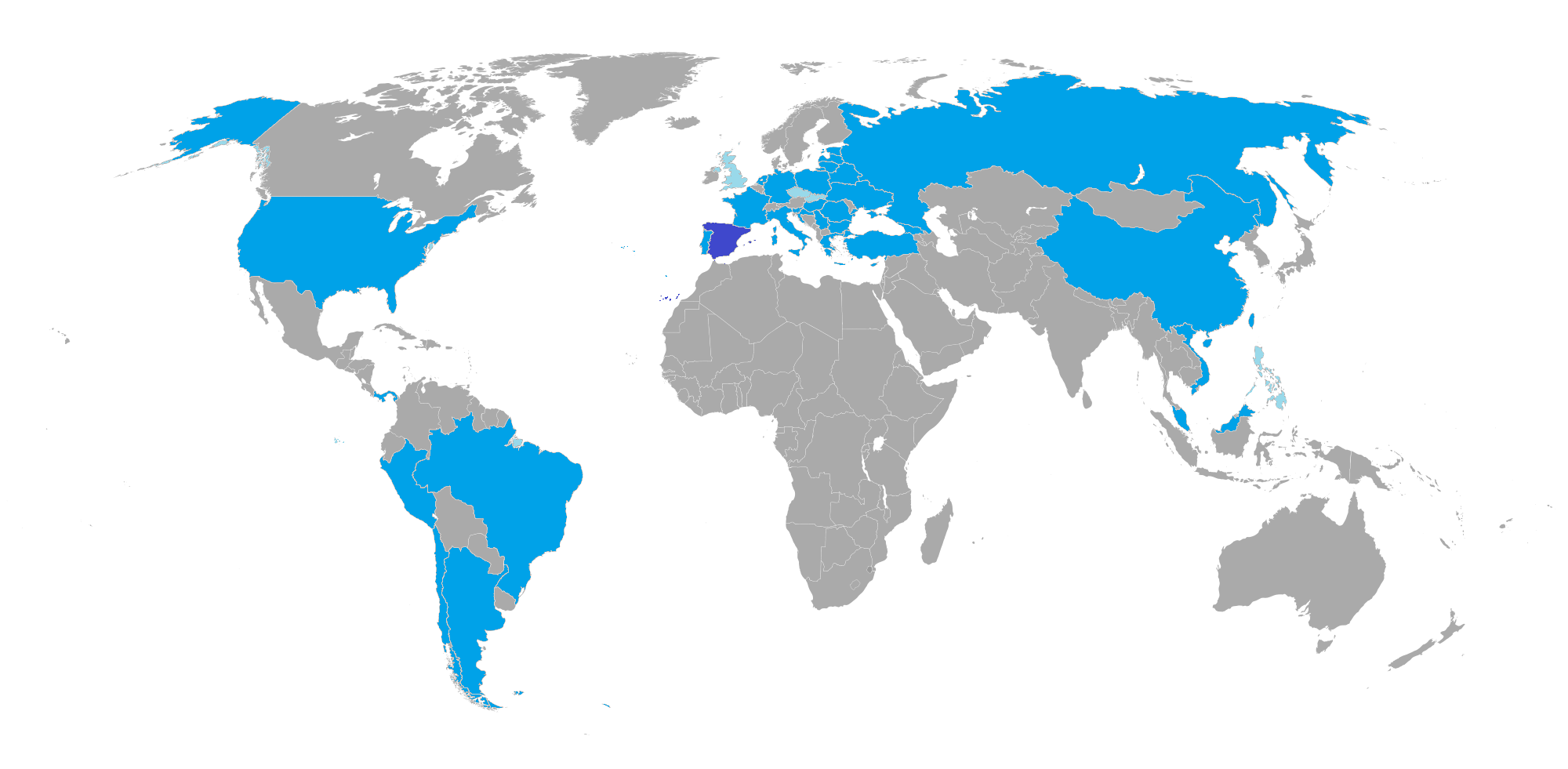 Tu Cara Me Suena (Your Face Sounds Familiar) around the world. Dark blue: original version. Cyan: adapted versions. Light blue: Not confirmed.